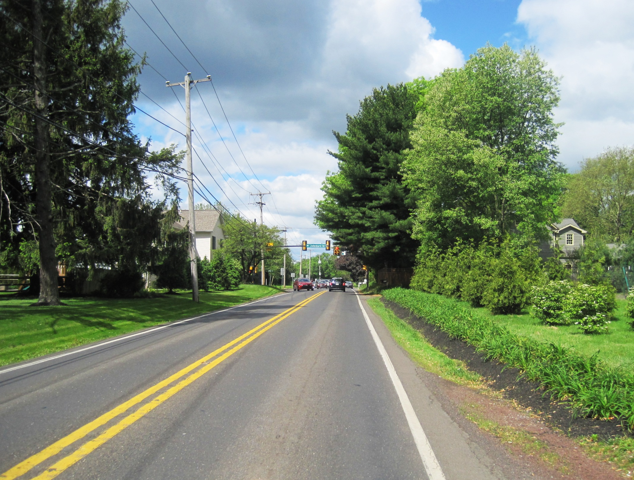 Photo showing Dolington, Pennsylvania, an unincorporated community within Upper Makefield Township, Bucks County. Photo was taken along southbound Washington Crossing Road (Pennsylvania Route 532) approaching Lindenhurst Road.